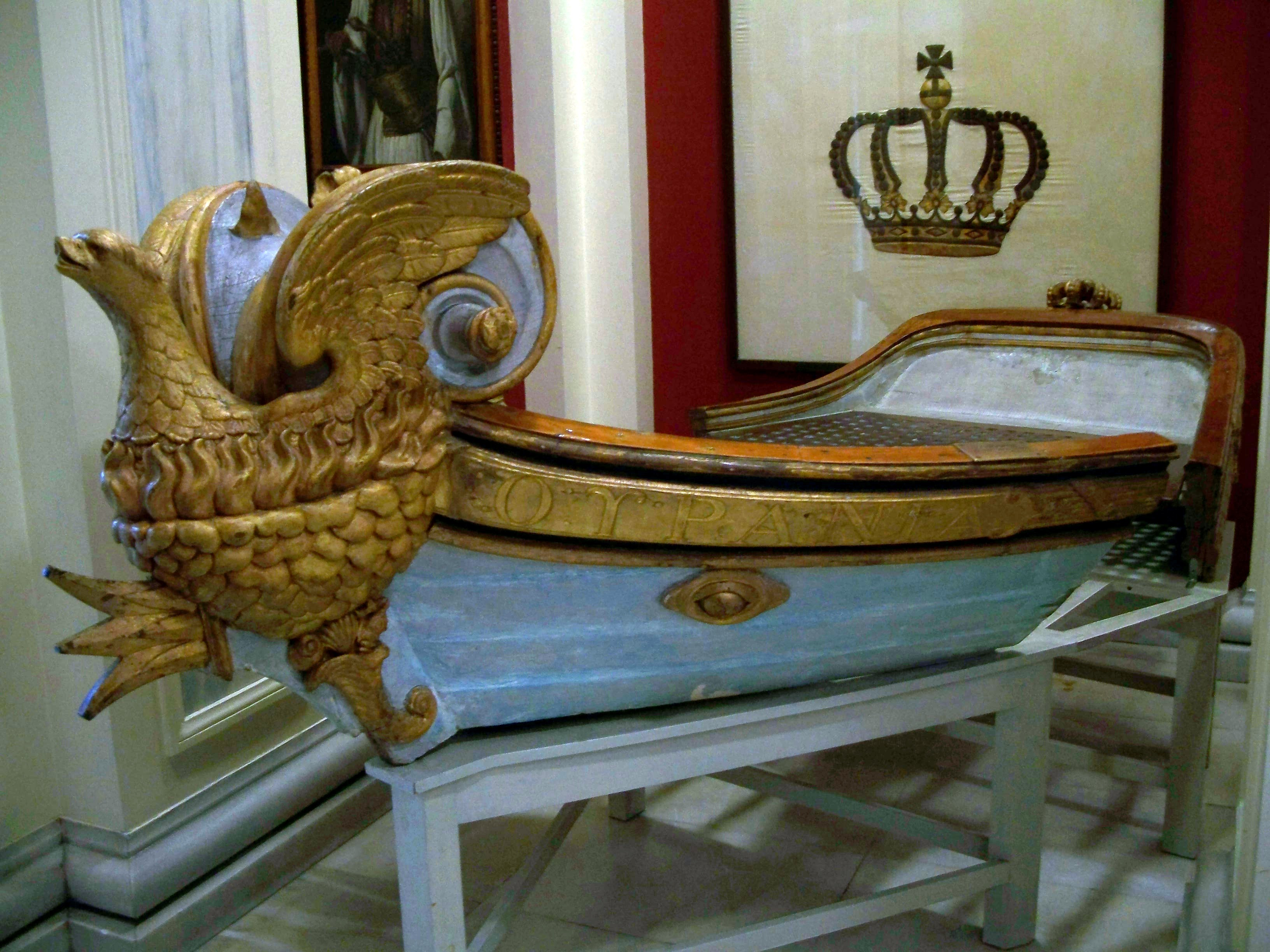 The boat "Oyrania" (Ουρανία), custom made once upon a time for Greece's first king Otto. National Historical Museum, Athens, Greece.